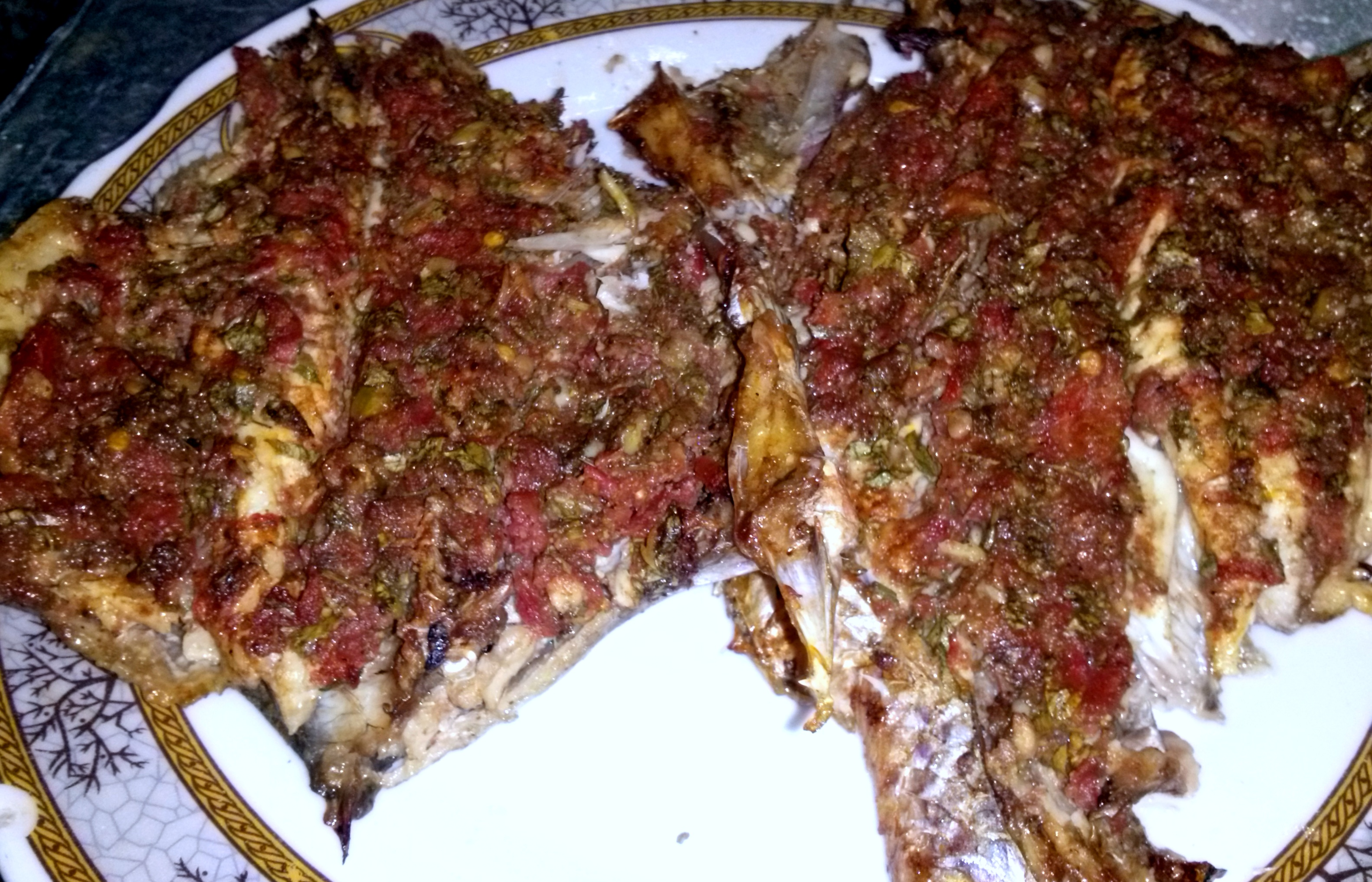 Fish Singari,Egyptian coastal dish This is an image of food from Egypt